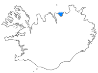 Map of Iceland showing the location of Skjálfandi fjord.